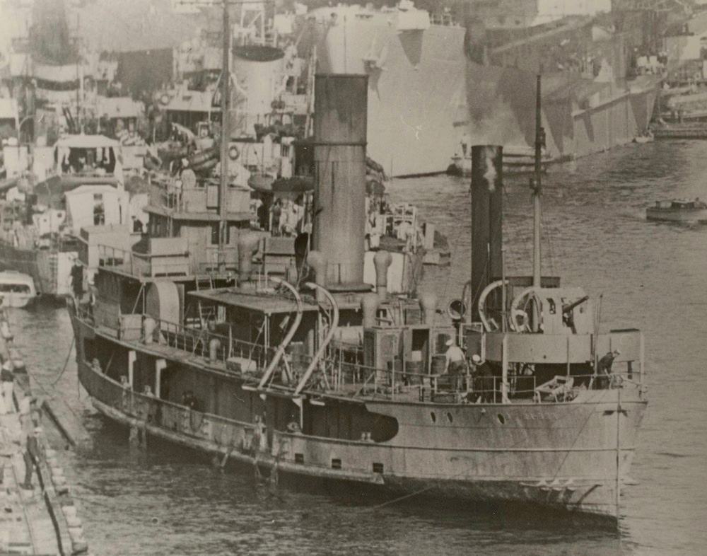 In November 1942 during World War 2, Burra Bra was requisitioned by the Royal Australian Navy. Her superstructure was stripped down, one wheelhouse removed, and she was armed with one 12-pounder on the stern, two Vickers machine guns, and two depth charge chutes. She was commissioned HMAS Burra Bra, with the Pennant Number 69, on 1 February 1943. The navy used her at sea as an anti-submarine training ship and as a target towing vessel for aircraft torpedo and bombing practise.[5] It was laid up in 1944 at Athol Bight adjacent Bradley's Head, before being used to supply steam to vessels under refit. It was sold in 1947 for stripping and later scuttled at sea.This photo shows her at her berth in Woolloomoollo.